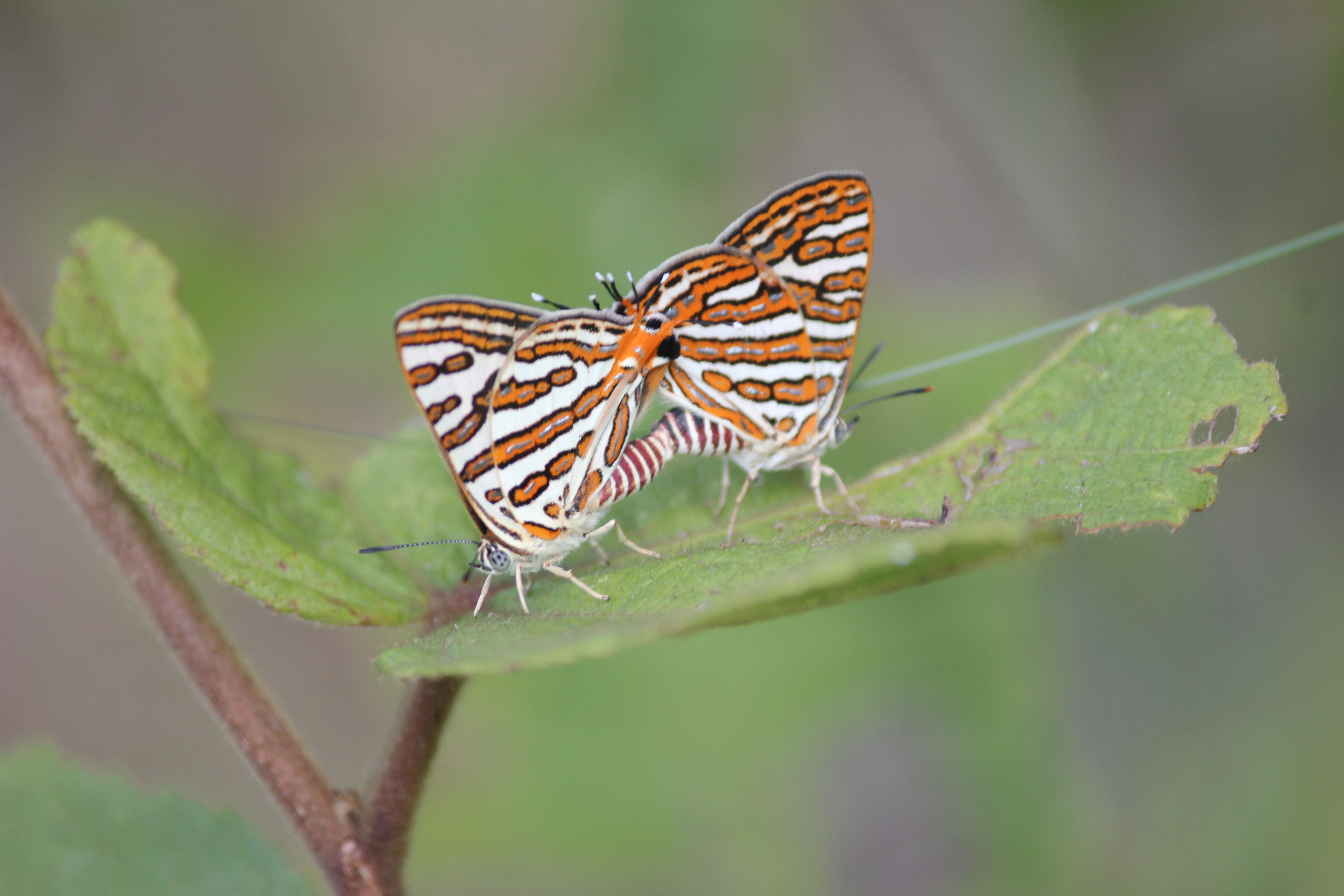 Common Silverline Mating